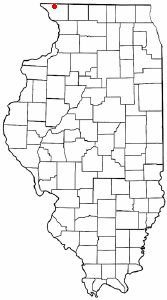 Category:Illinois city locator maps